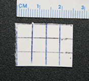 LSD BLOTTER ACID MIMICS CONTAINING 4-CHLORO-2,5-DIMETHOXY- AMPHETAMINE (DOC) IN CONCORD, CALIFORNIA The Contra Costa County Sheriff - Coroner's Office Forensic Services Division Laboratory (Martinez, California) recently received a small piece of crudely lined white blotter paper without any design, suspected LSD “blotter acid” (see Photo 2). The exhibit was seized in Concord by the Concord Police Department, pursuant to a local arrest for possession for sale (no further details). Unusually, the paper appeared to be hand-lined using two pens, in squares measuring approximately 6 x 6 millimeters. The paper displayed fluorescence when irradiated at 365 nanometers; however, color testing for LSD with para-dimethylaminobenzaldehyde (PDMAB) was negative. Analysis of a methanol extract by GC/MS indicated not LSD but rather 4-chloro-2,5-dimethoxyamphetamine (DOC, not quantitated but a high loading based on the TIC). This was the laboratory’s first encounter with DOC in any form.